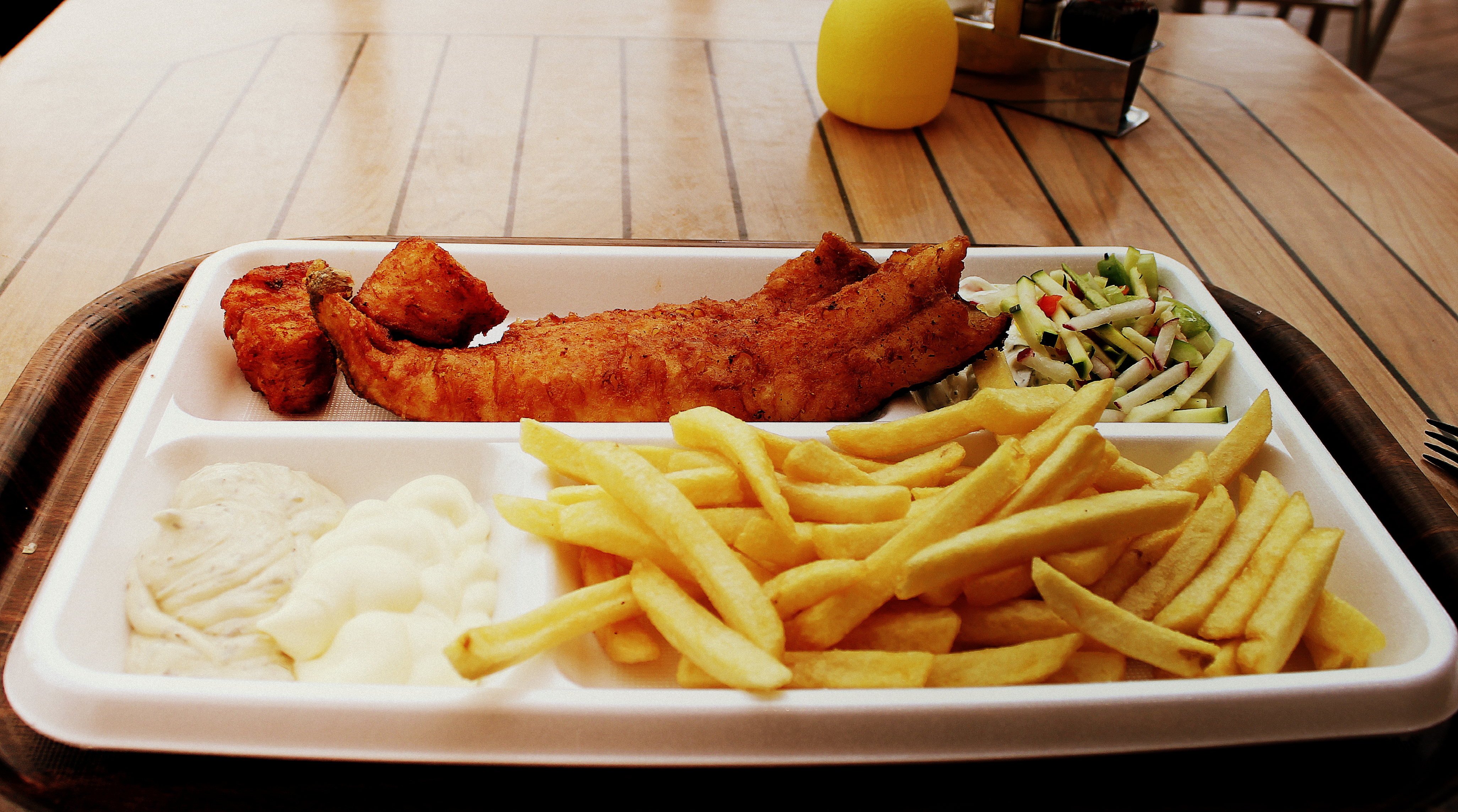 FISH AND CHIP SUPPER AT OUDESCHILD TEXEL ISLAND HOLLAND SEP 2012